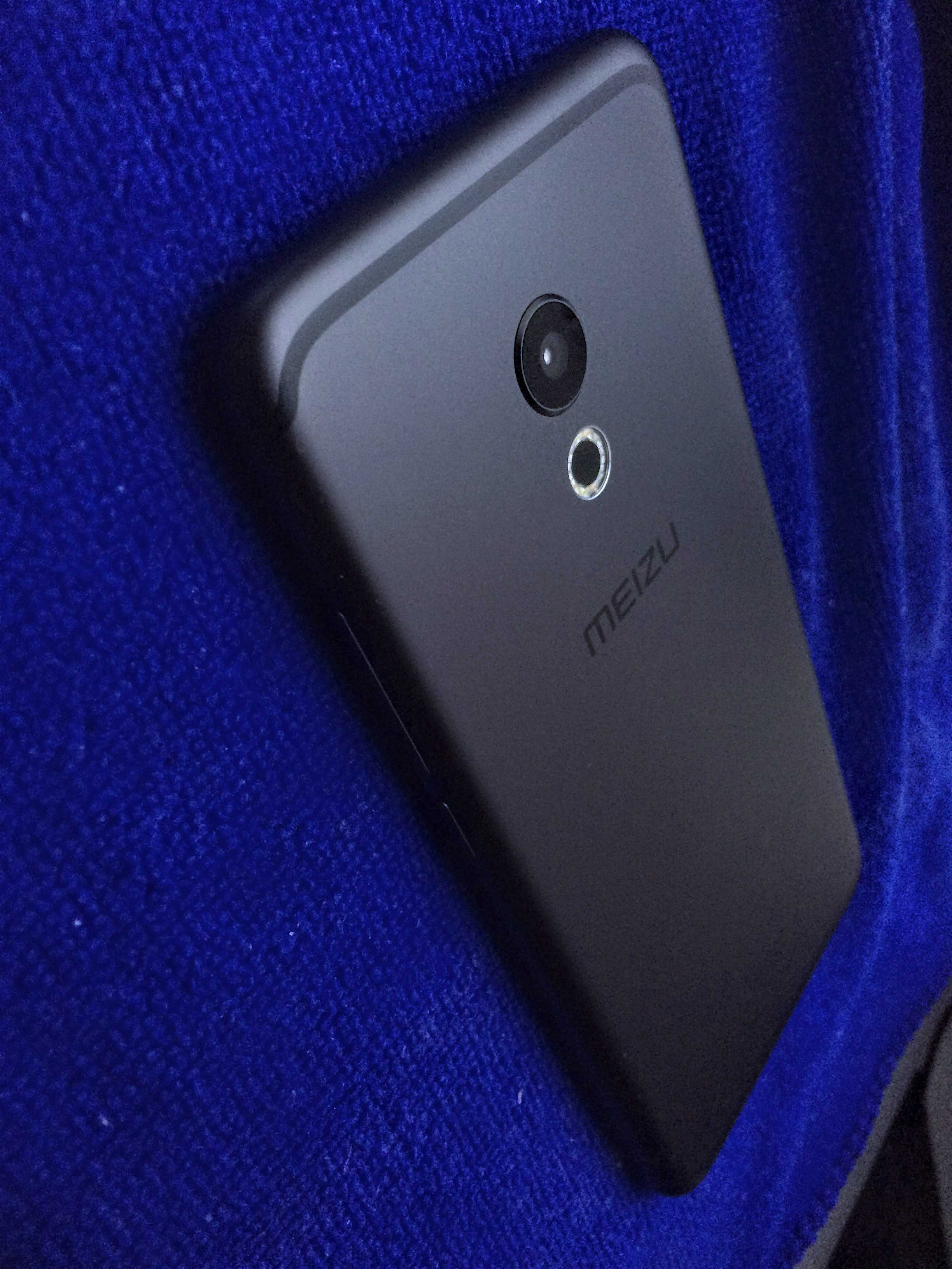 Meizu Pro 6